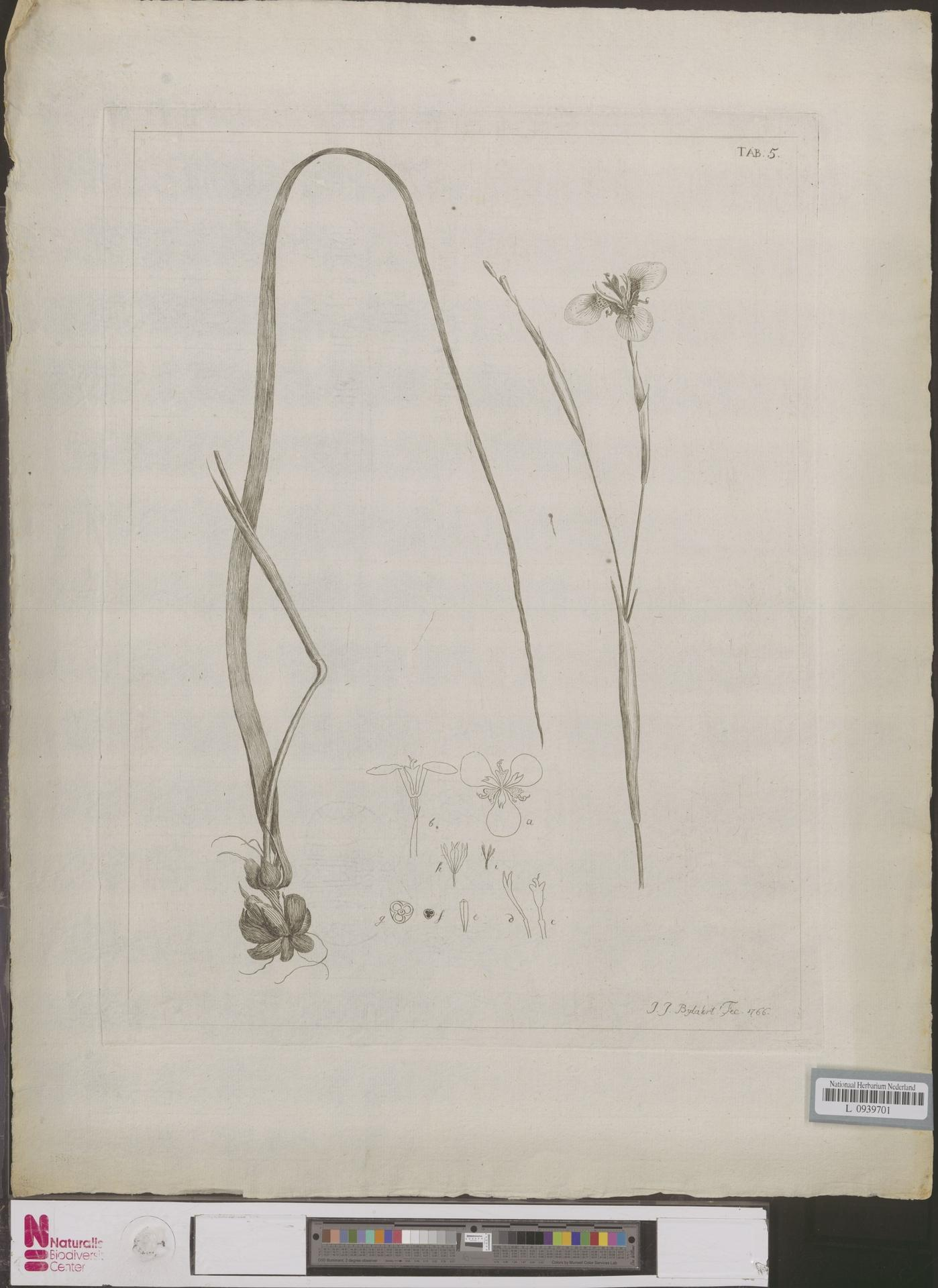 Unidentified plants